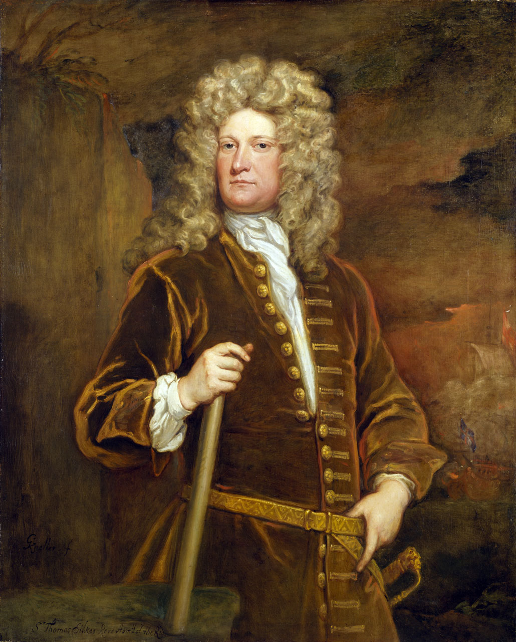 A portrait of Rear Admiral Sir Thomas Dilkes (c.1667 - 1707), painted by Godfrey Kneller, and in the collection of the National Maritime Museum in the UK.